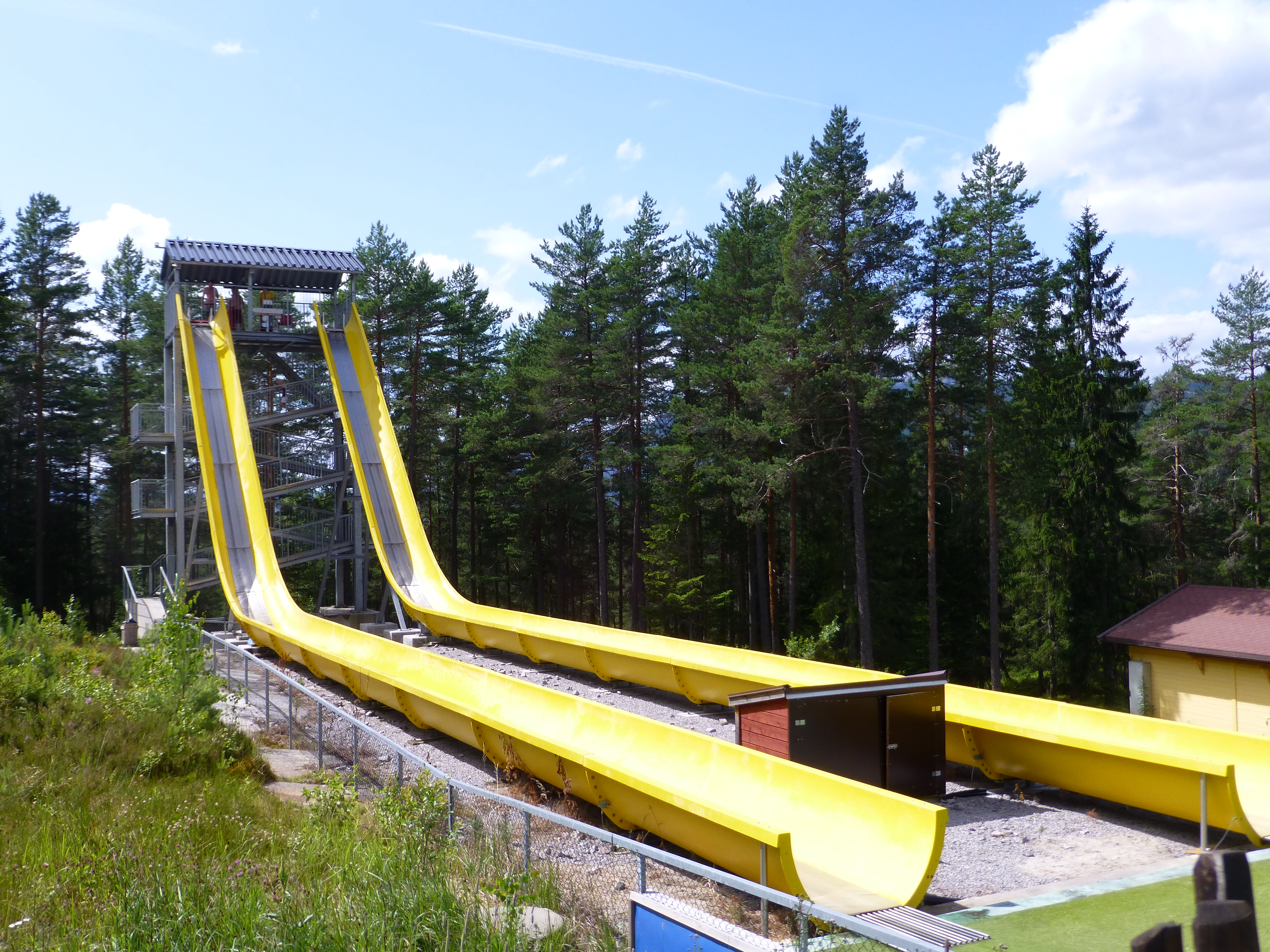 Norwegian amusement park "Bø Sommarland" in Bø, Telemark. This waterslide is called "Splash".